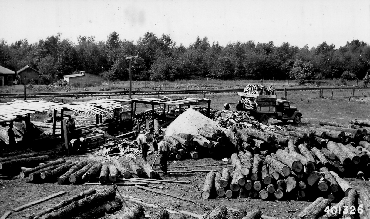 Scope and content: Original caption: The Charles Merrill tie mill at Irons, MI.